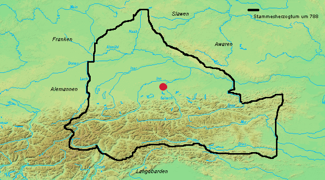 Burghausen's location in Bavaria 788